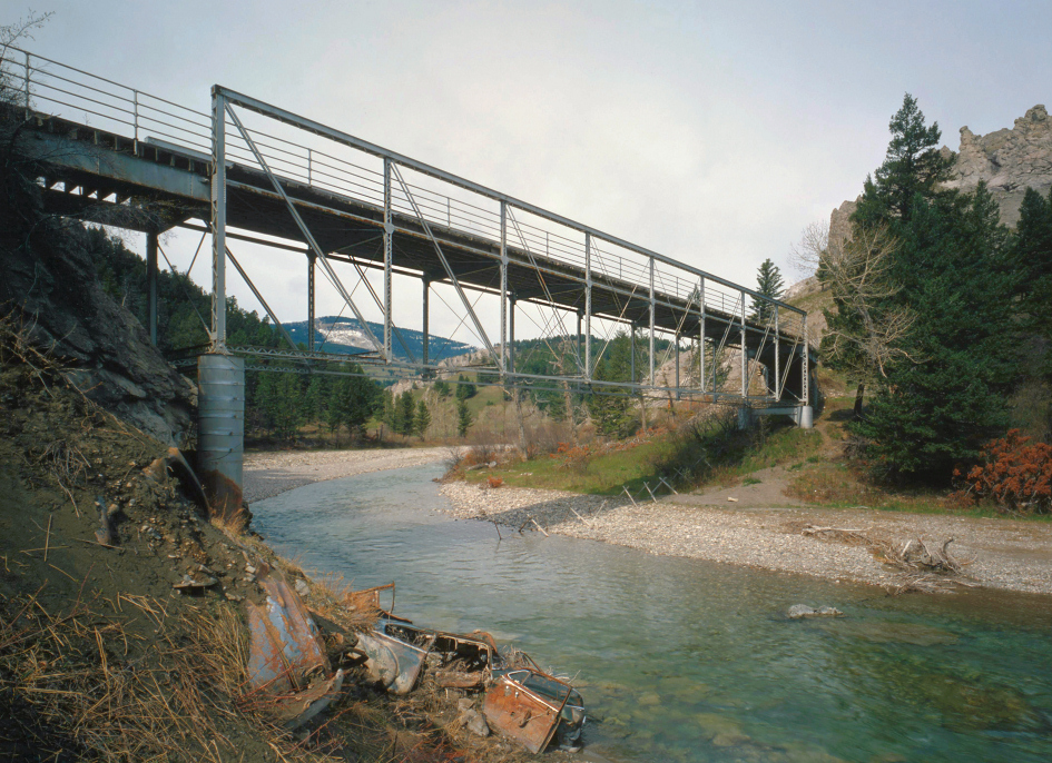 Upstream side of the Dearborn River High Bridge, which carries Bean Lake Road over Dearborn River southwest of Augusta, Montana, United States. One of the few remaining half-deck truss bridges in the United States, it was built in 1897. The bridge is listed on the National Register of Historic Places.